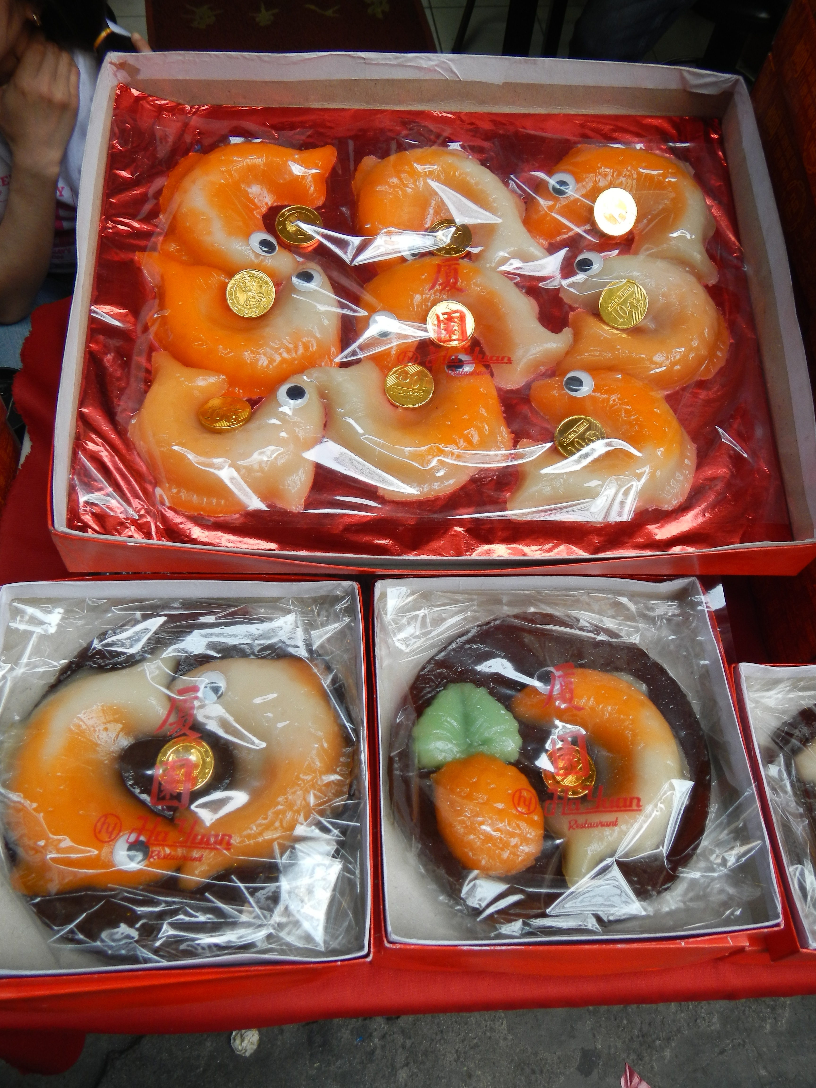 Upload Wizard photos of - a) Ling Nam Wanton Parlor and Noodle Factory [1] founded in Chinatown in 1950 served traditional Chinese short-order fare, 616 T. Alonzo st. cor. Kipuja st. Coordinates: 14°36'7"N 120°58'43"E b) fruits, foods, and full of round circular things, in the Year of the Wooden Horse, Manila Chinatown, Chinese New Year 2014, Salazar st., Ongpin street, Binondo, Manila and Santa Cruz, Manila, President Grand Palace Restaurant.